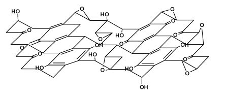 Dekany formula